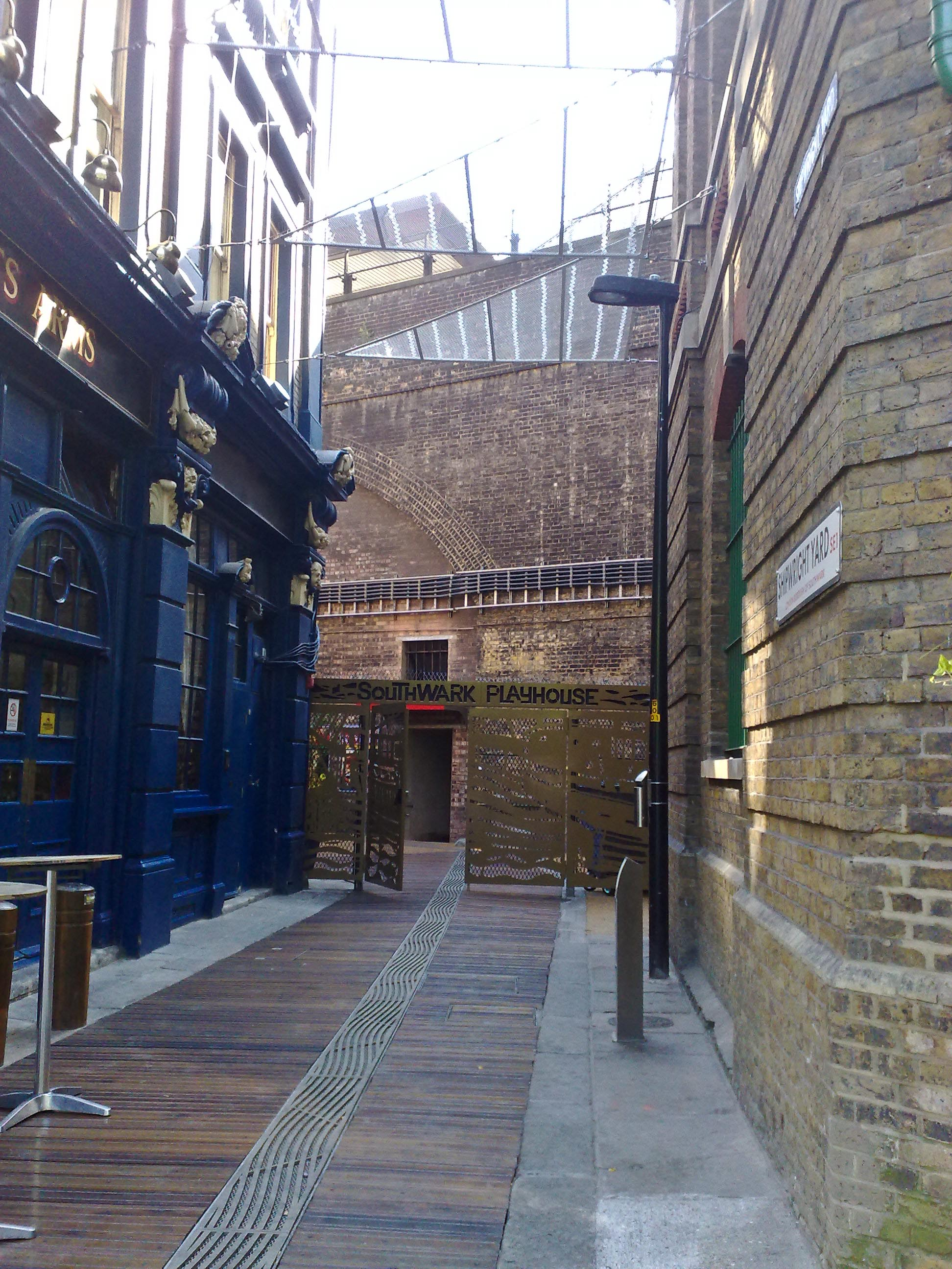 Off Tooley Street, SE1